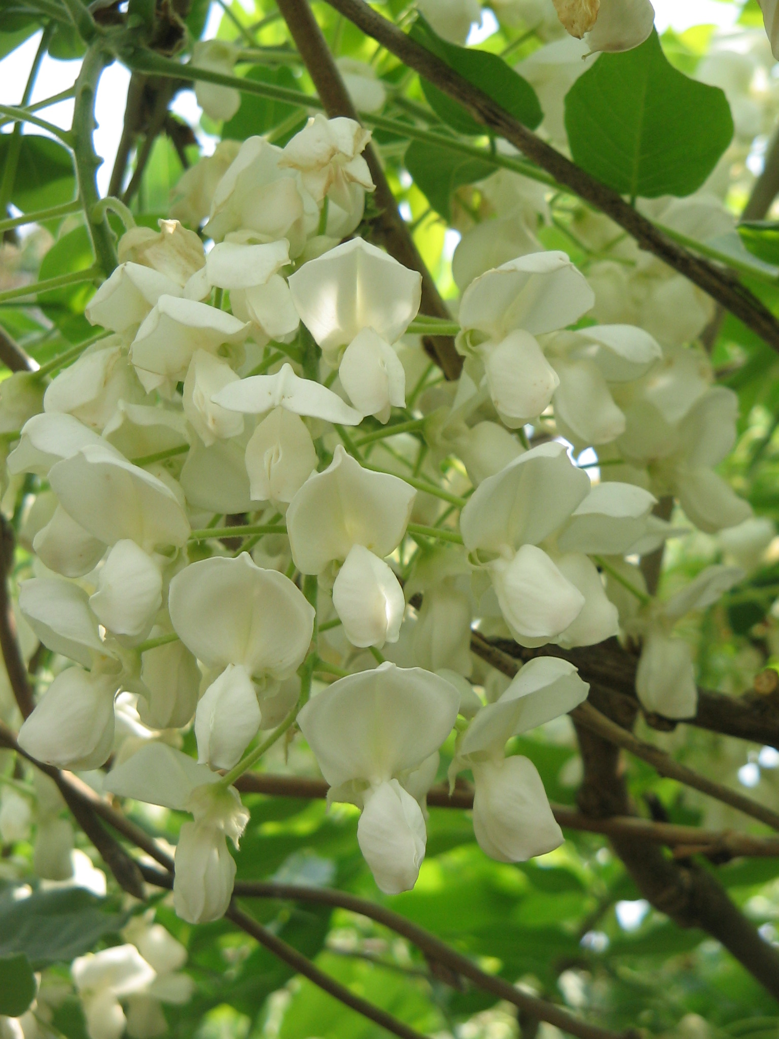 Wisteria brachybotrys 'Alba'